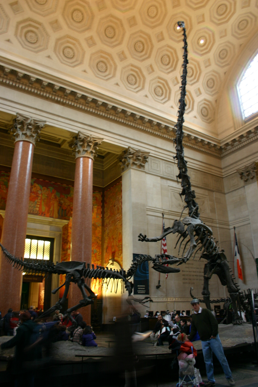 Visit my blog at for science news and speculation.